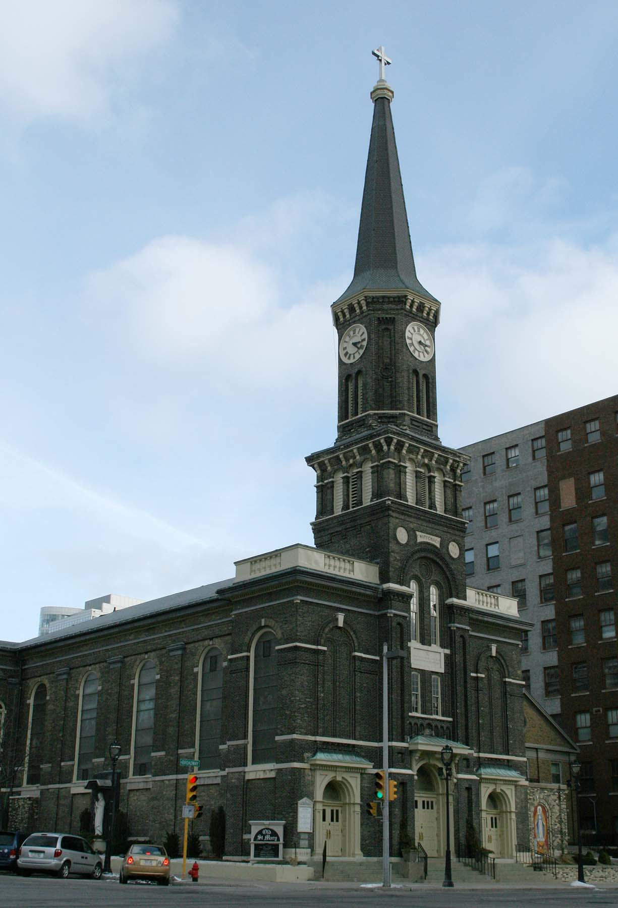 Old St. Mary's Church, Milwaukee, Wisconsin. US Registered Historic Place. Built in 1847, the first German Catholic church in Milwaukee.